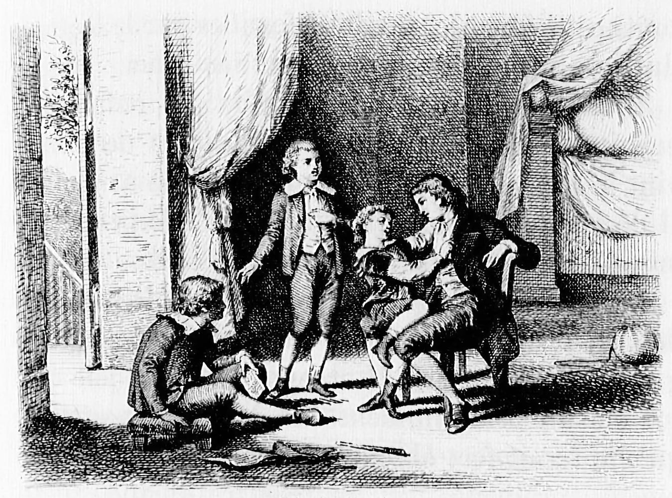 Illustration of The Red and the Black (1830) by Stendhal (1783-1842)